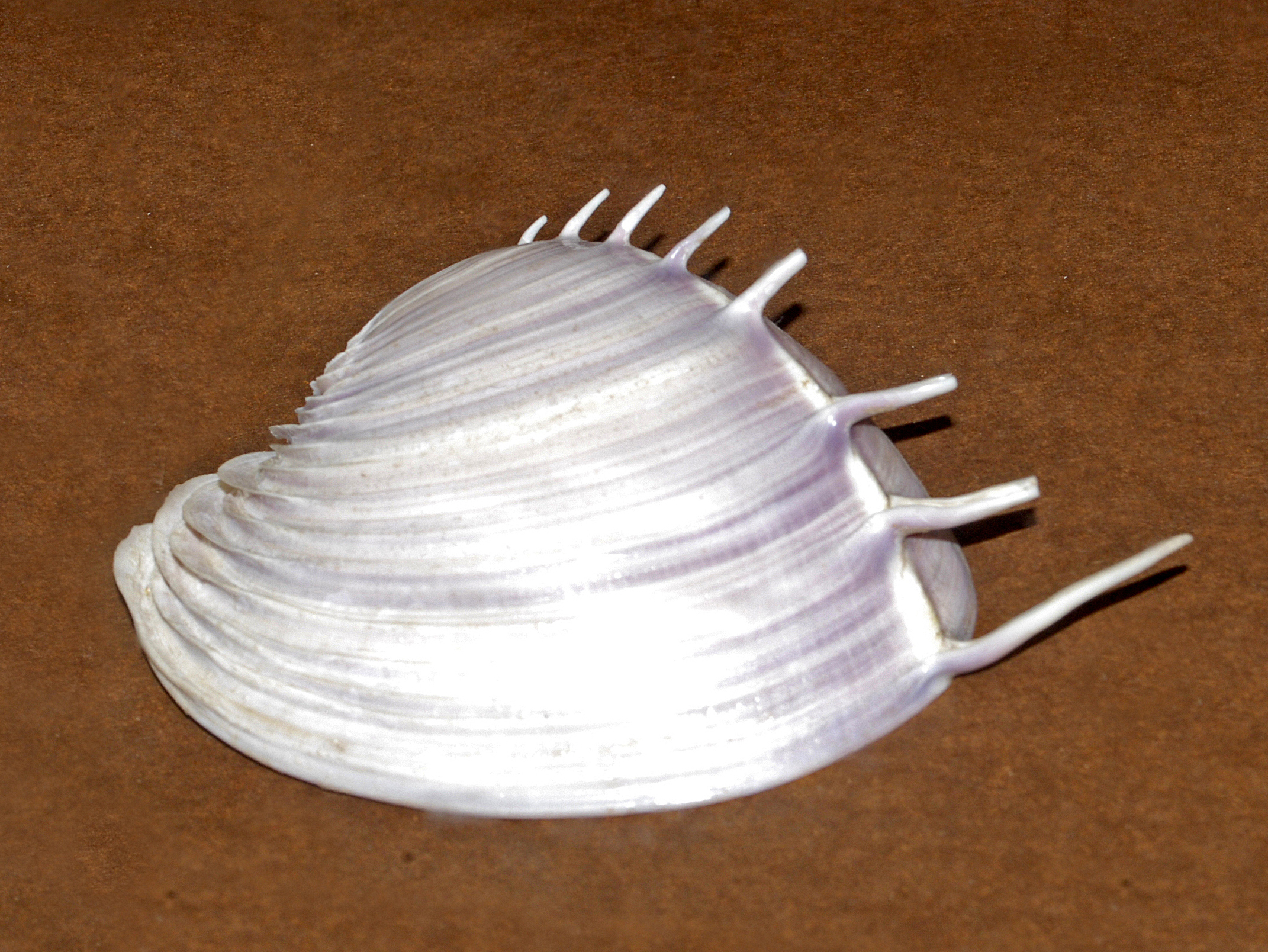 A valve of Pitar dione on display at the Museo di Storia Naturale di Pavia